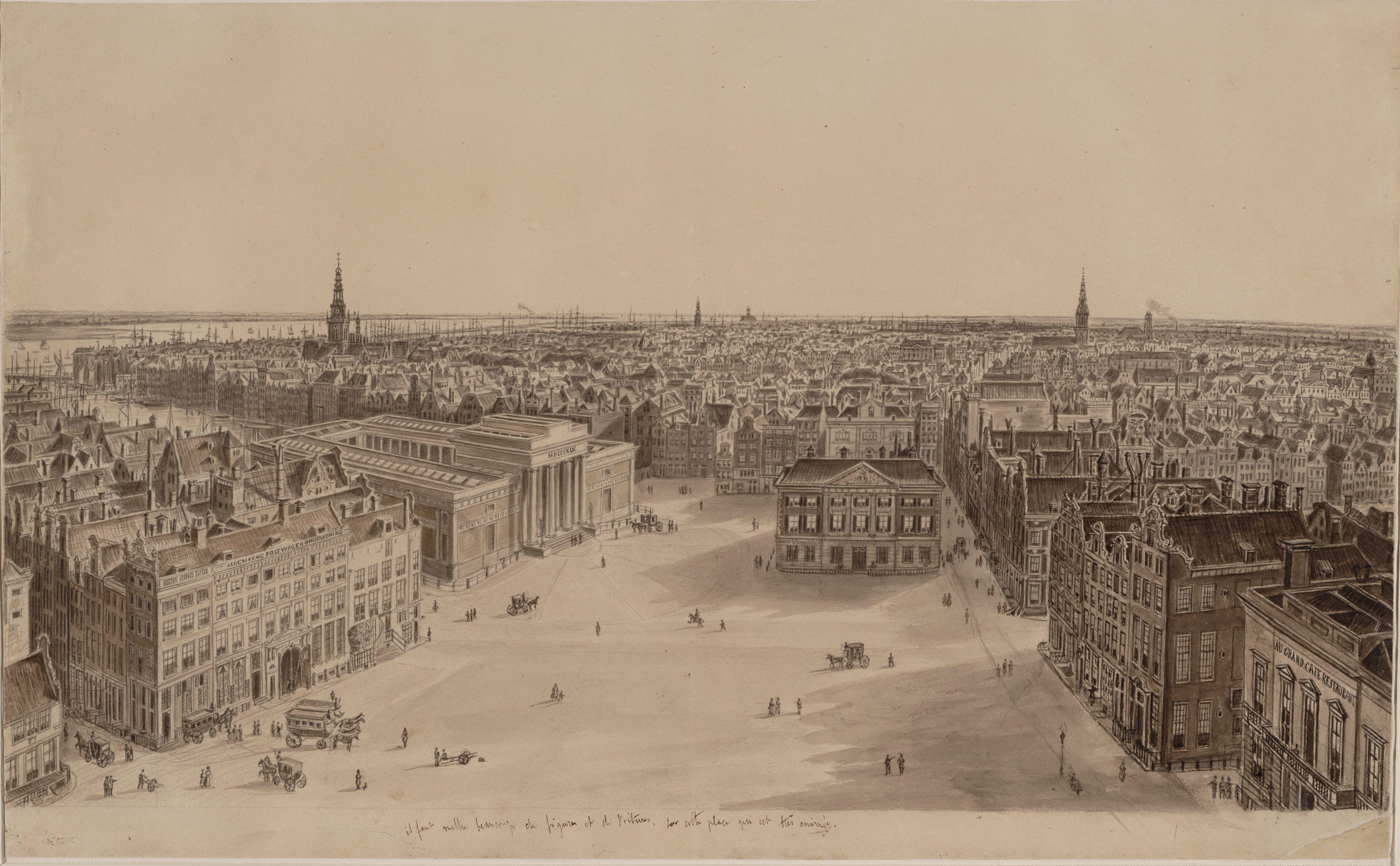 View of Amsterdam from Royal Palace tower.